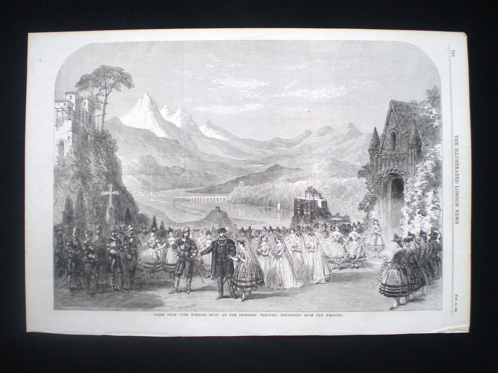 The Winning Suit 1863 with Amy Sedgwick from Illus London News